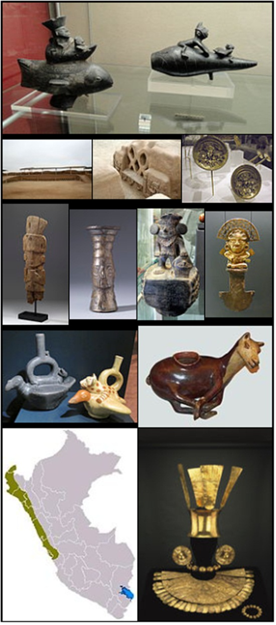 Photomontage Chimu Culture